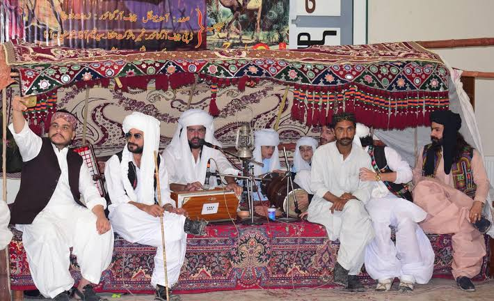 This pic is showing folk music in one of provine of Pakistan called balochistan. Here traditional music equipments are made. This photo has been taken in the country: Pakistan